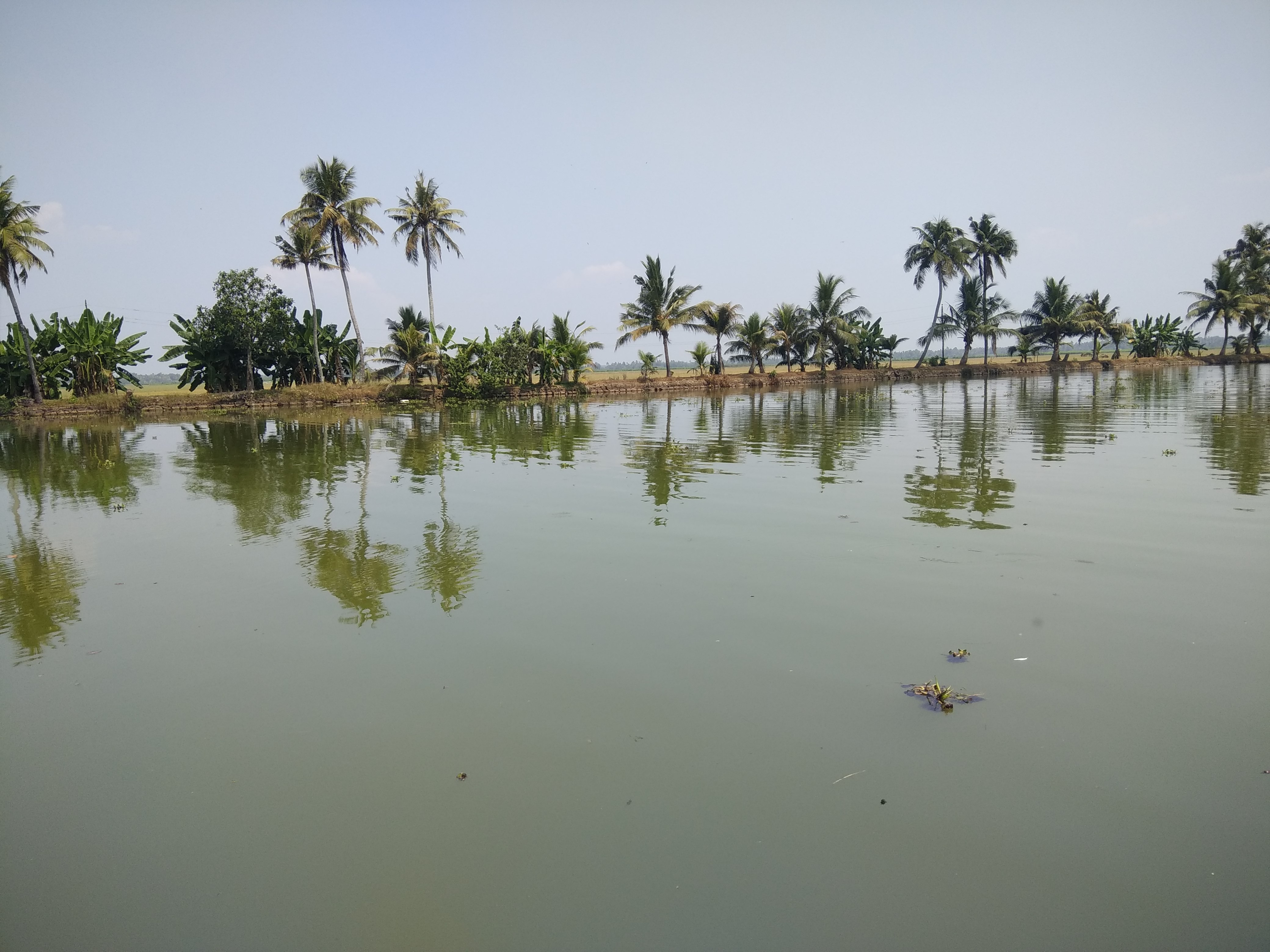 varickudypond